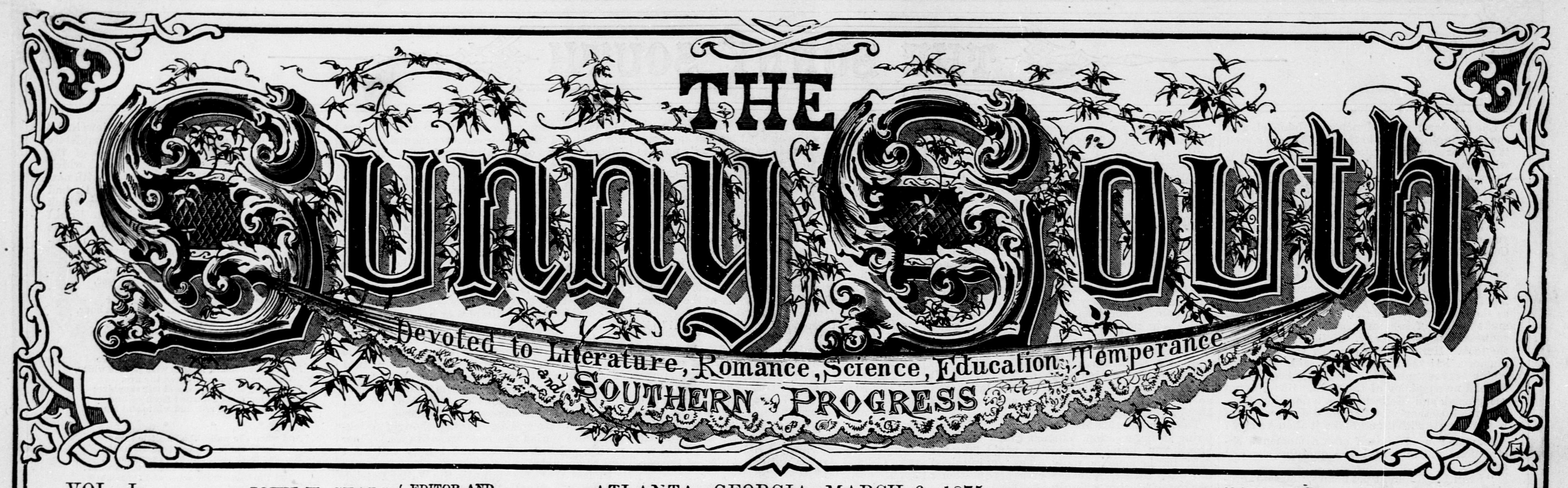 Banner of The Sunny South newspaper, March 6, 1875